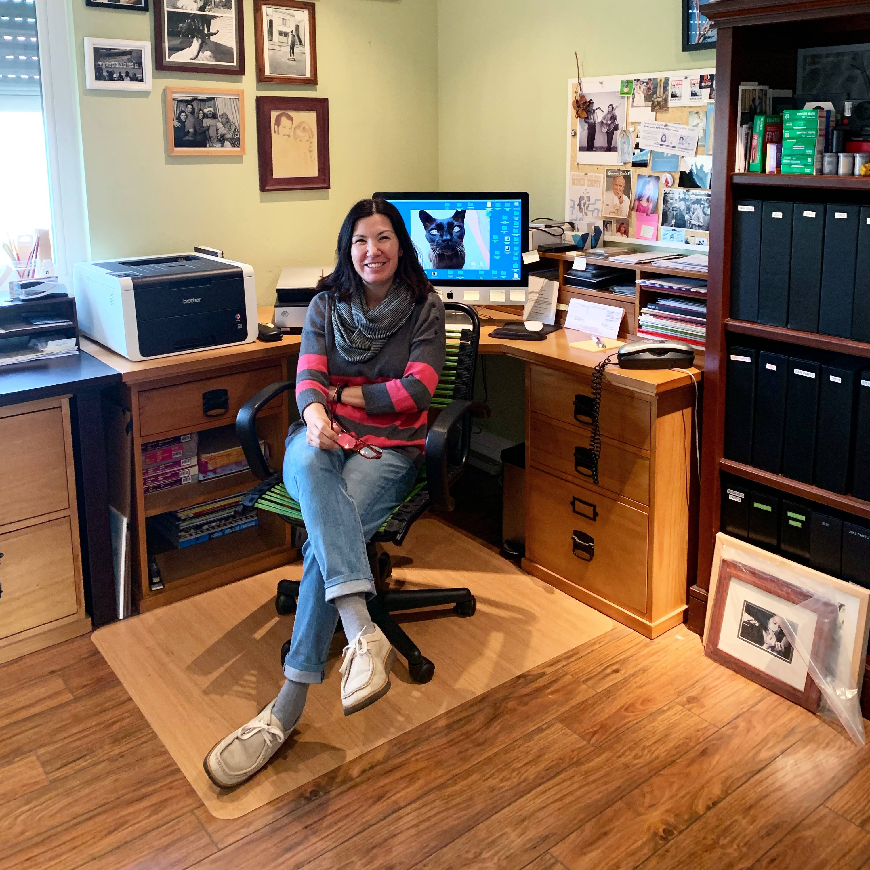 Photograph by Christopher McCall Deanna Templeton, Huntington Beach, 2018. Creative Commons